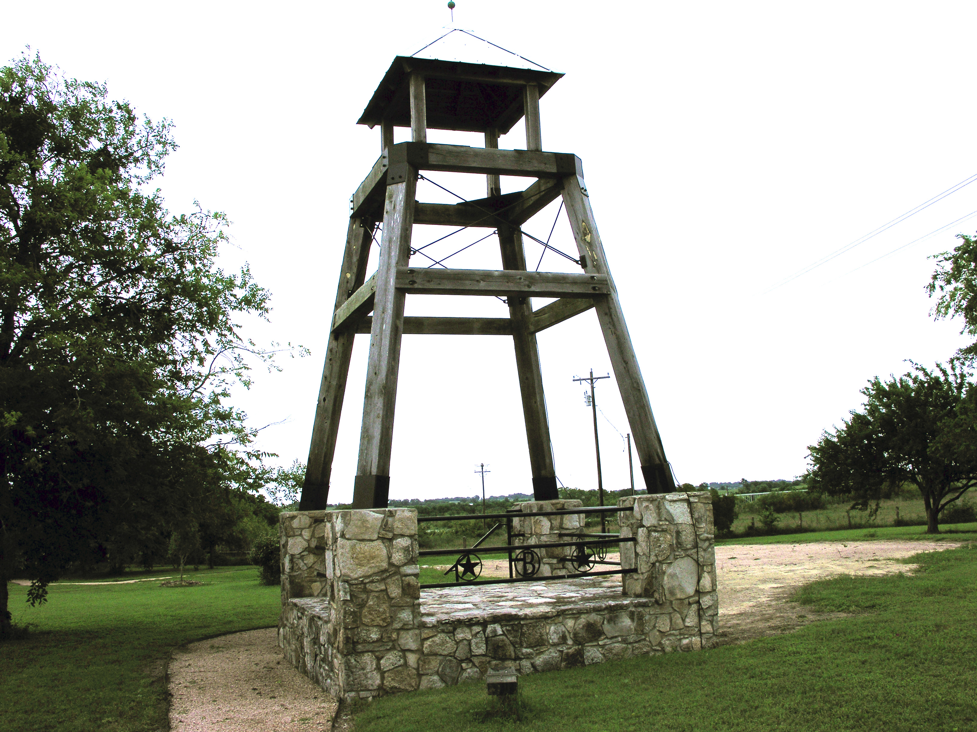 Original Site of Baylor University in Independence, TX. Photographed on May 17, 2008.